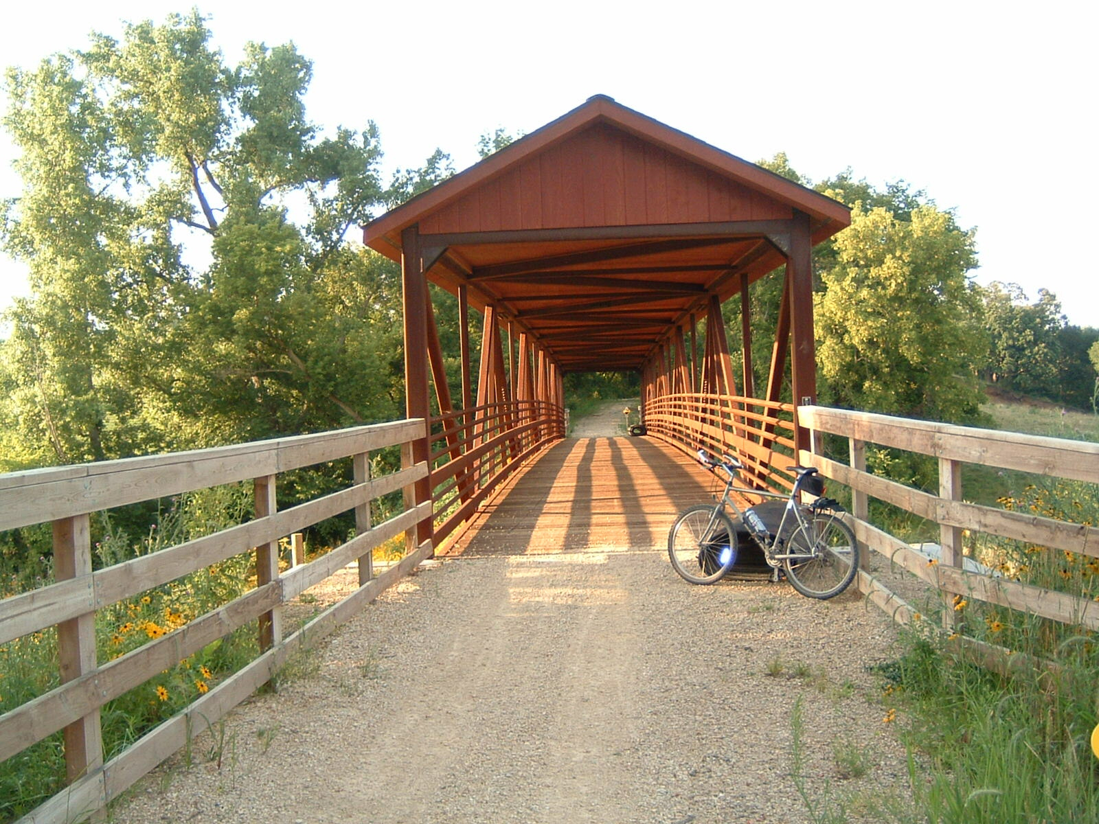 A bridge on the Pioneer Trail which starts in Zumbrota Minnesota and winds to Goodhue, Mn.